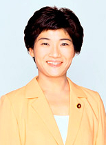 Chinami Honda was inaugurated as Parliamentary Secretary for Foreign Affairs on September, 2009.